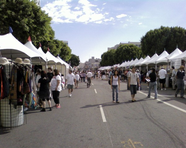 The Street Arts Festival and Carnival at the 67th annual Nisei Week festival.